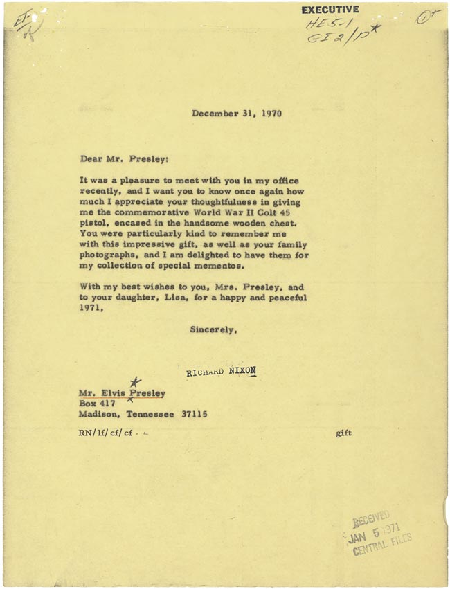 Letter from Richard M. Nixon to Elvis Presley, 31 December 1970